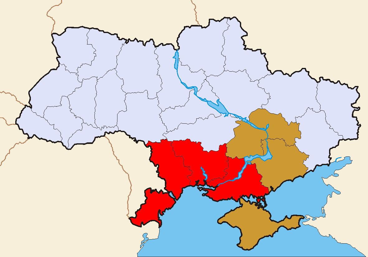 Southern Ukraine. Filled with red - always included. With brown - often included. See also